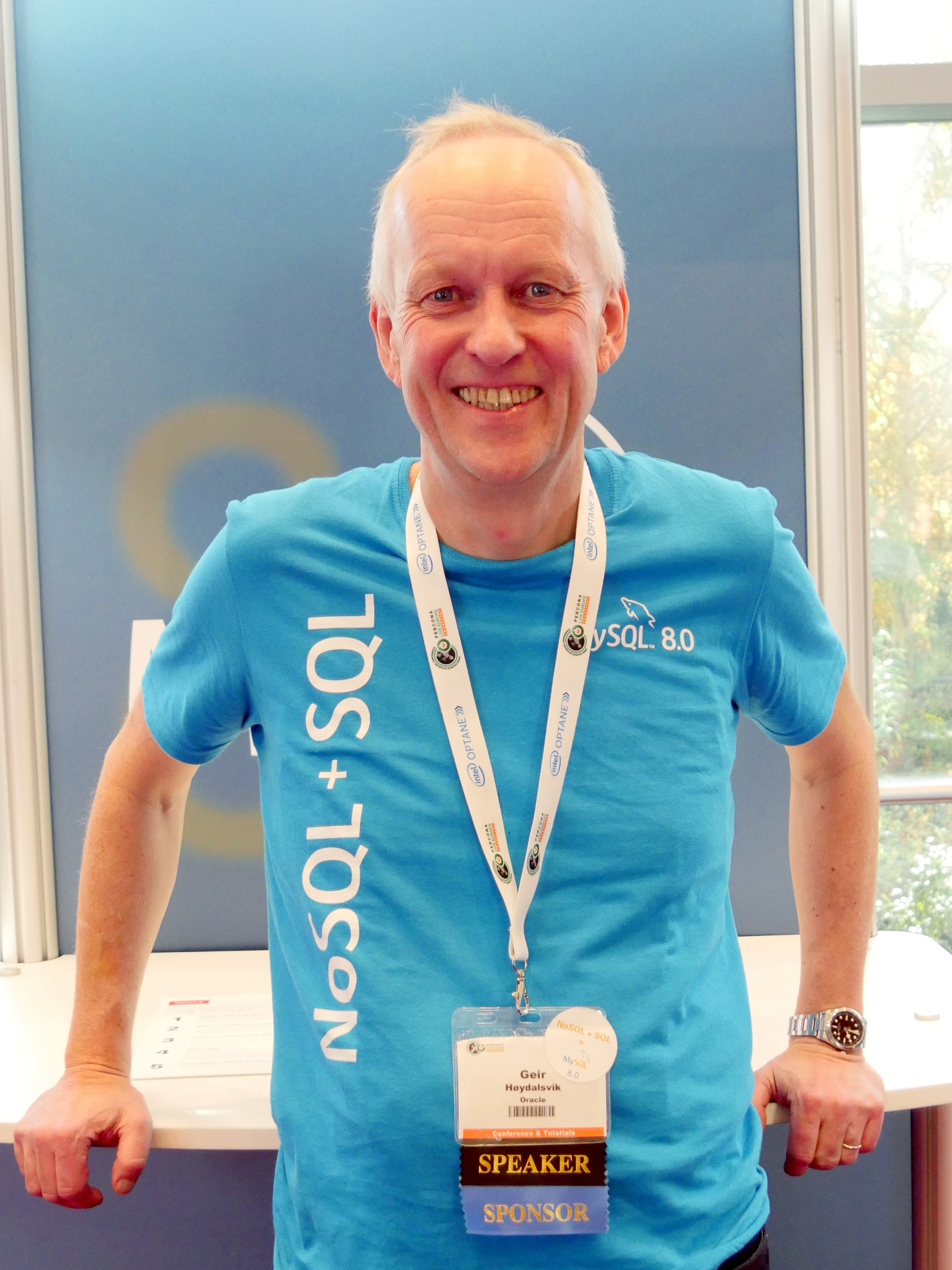 Geir Høydalsvik, Senior Software Development Director at Oracle and responsible for the development and maintenance of MySQL Database, at the MySQL 8.0 promotion booth during Percona Live Europe Conference in Frankfurt (2018-11-07).